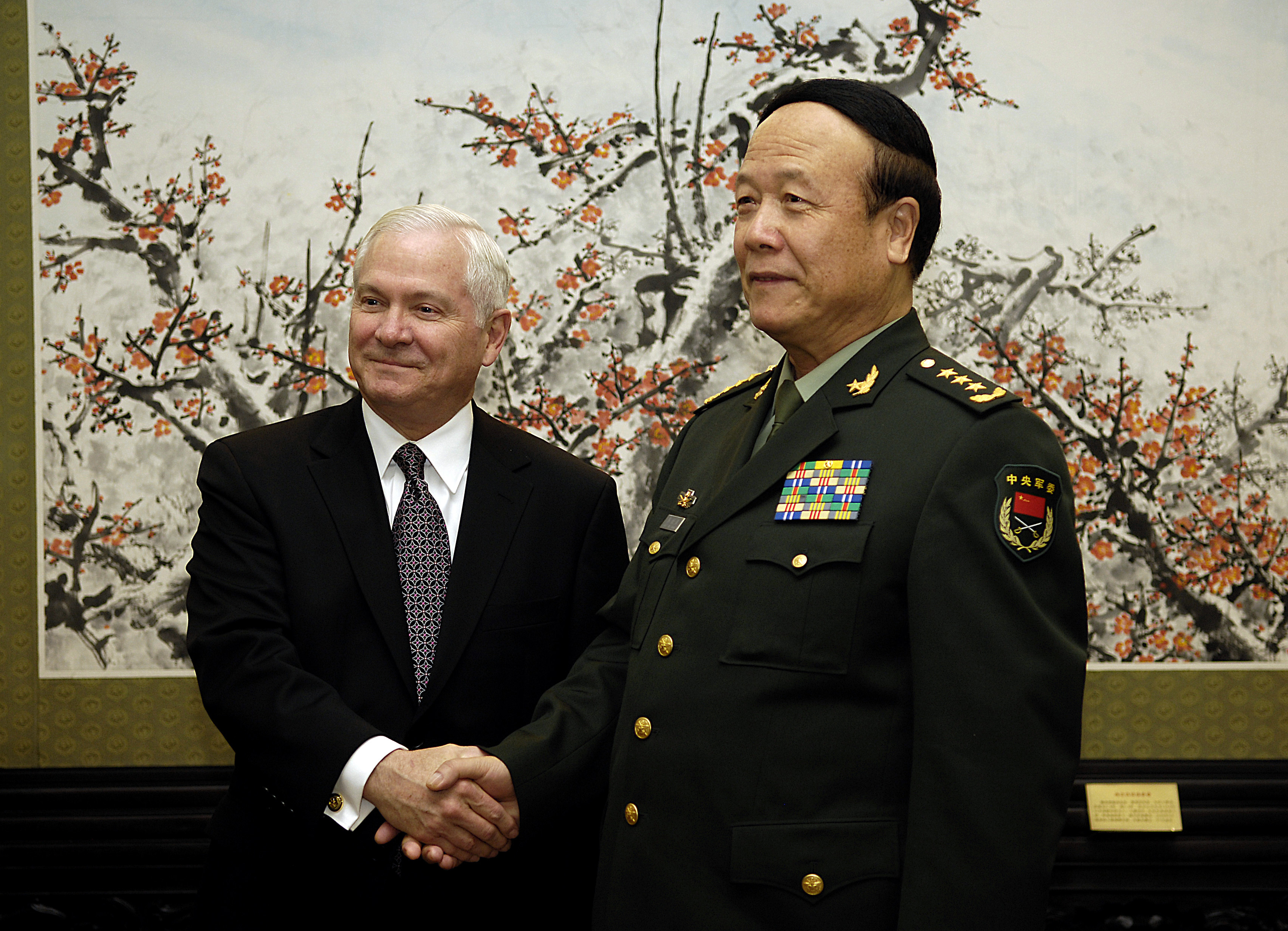 U.S. Defense Secretary Robert Gates meets Gen. Guo Boxiong in Beijing, China.